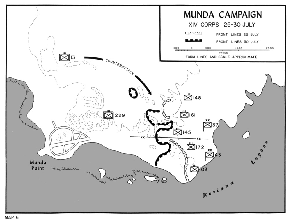 Map showing the Japanese counterattack on New Georgia, July 1943